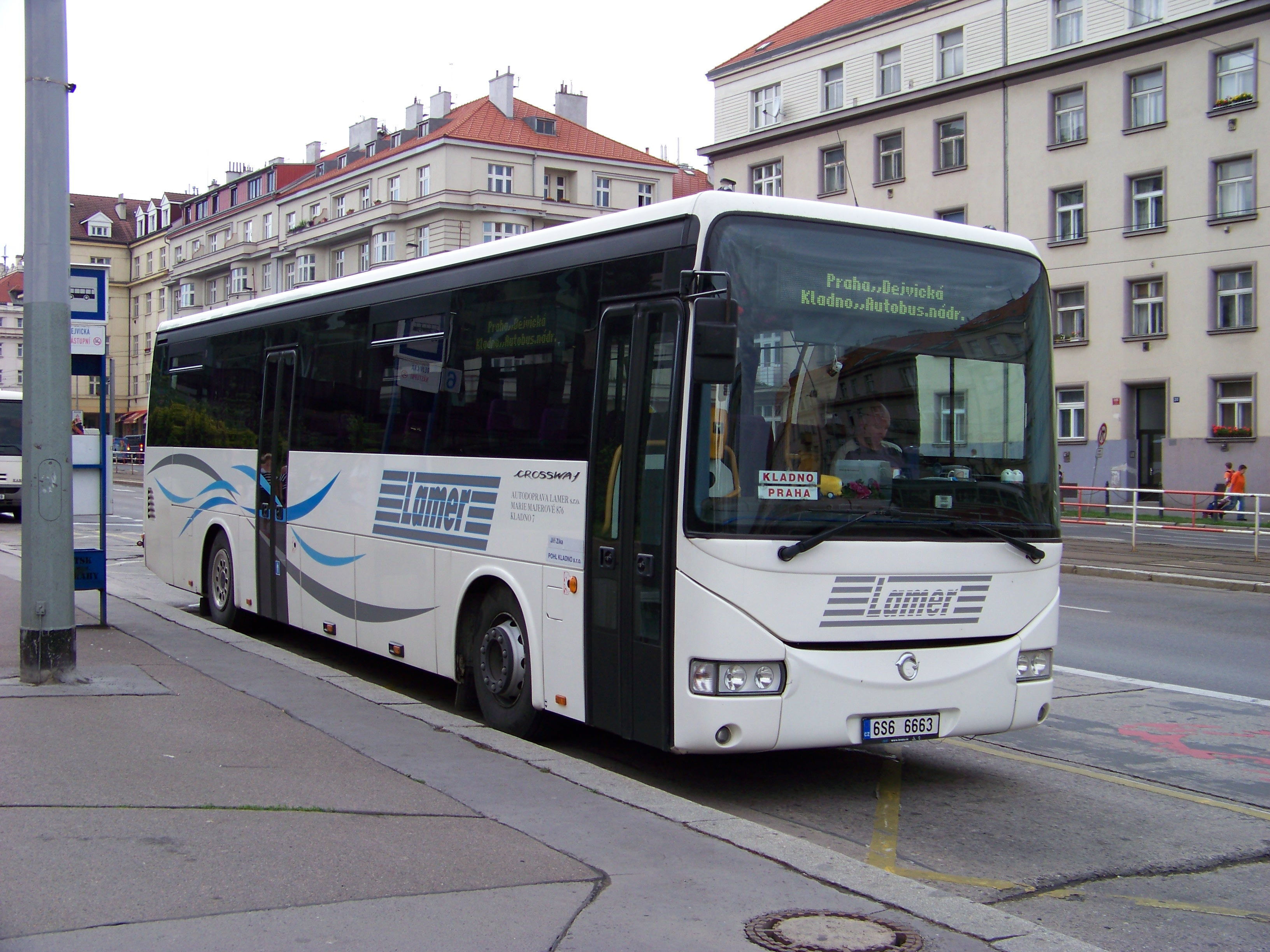 Prague-Dejvice, the Czech Republic. Evropská street, bus stop Dejvická, a bus Irisbus Crossway of Autodoprava Lamer.